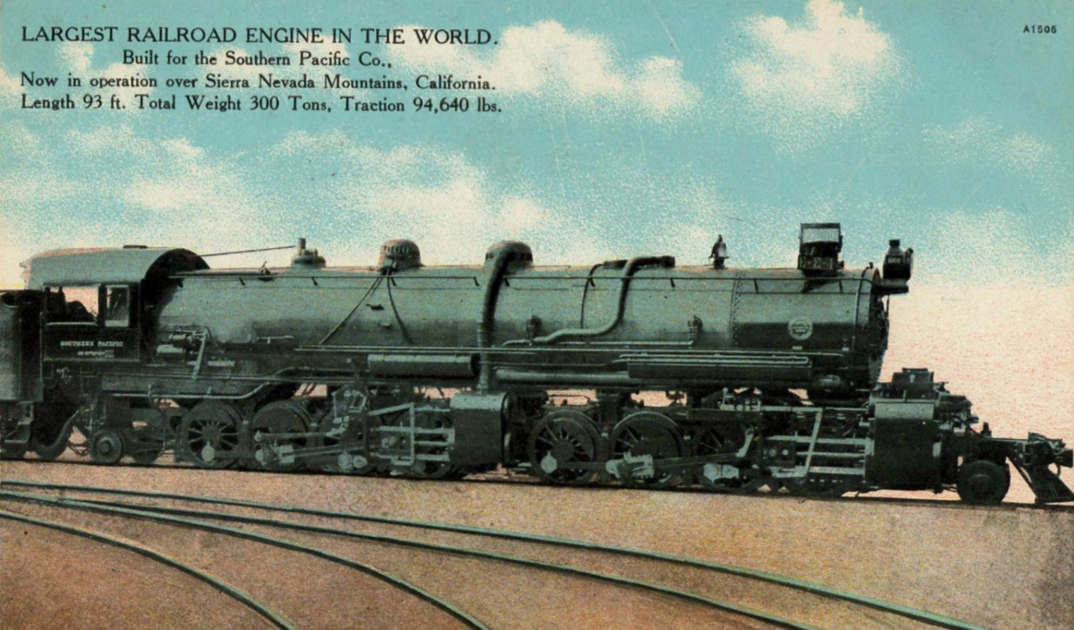 Postcard photo of what was once the largest locomotive in the world, owned by Southern Pacific. The SP number can't be read but this is a Baldwin, as their round plate can be seen on the locomotive's left side. This looks to be the MC-1 before it was converted to cab forward in the early 1920s. This image matches this photo of SP #4000, but the postcard view doesn't include the tender with the number on it.